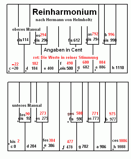 The pure harmonium with two manuals by Hermann von Helmholtz